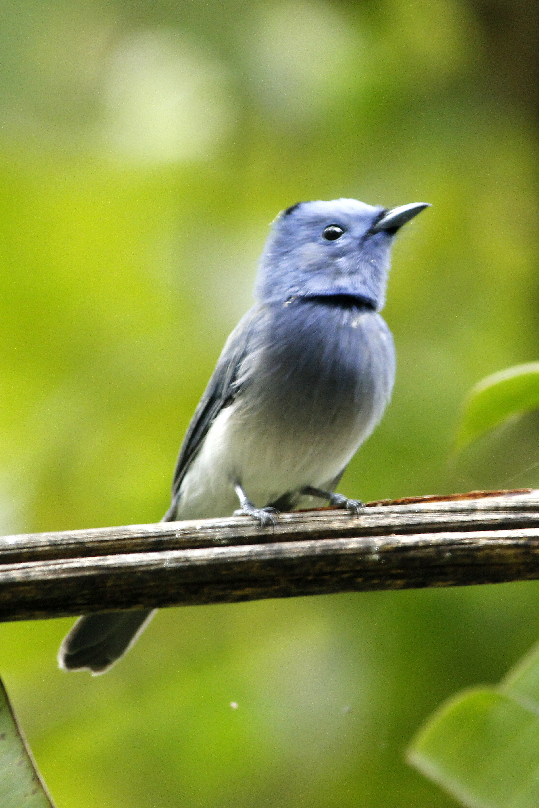 Black-naped Monarch